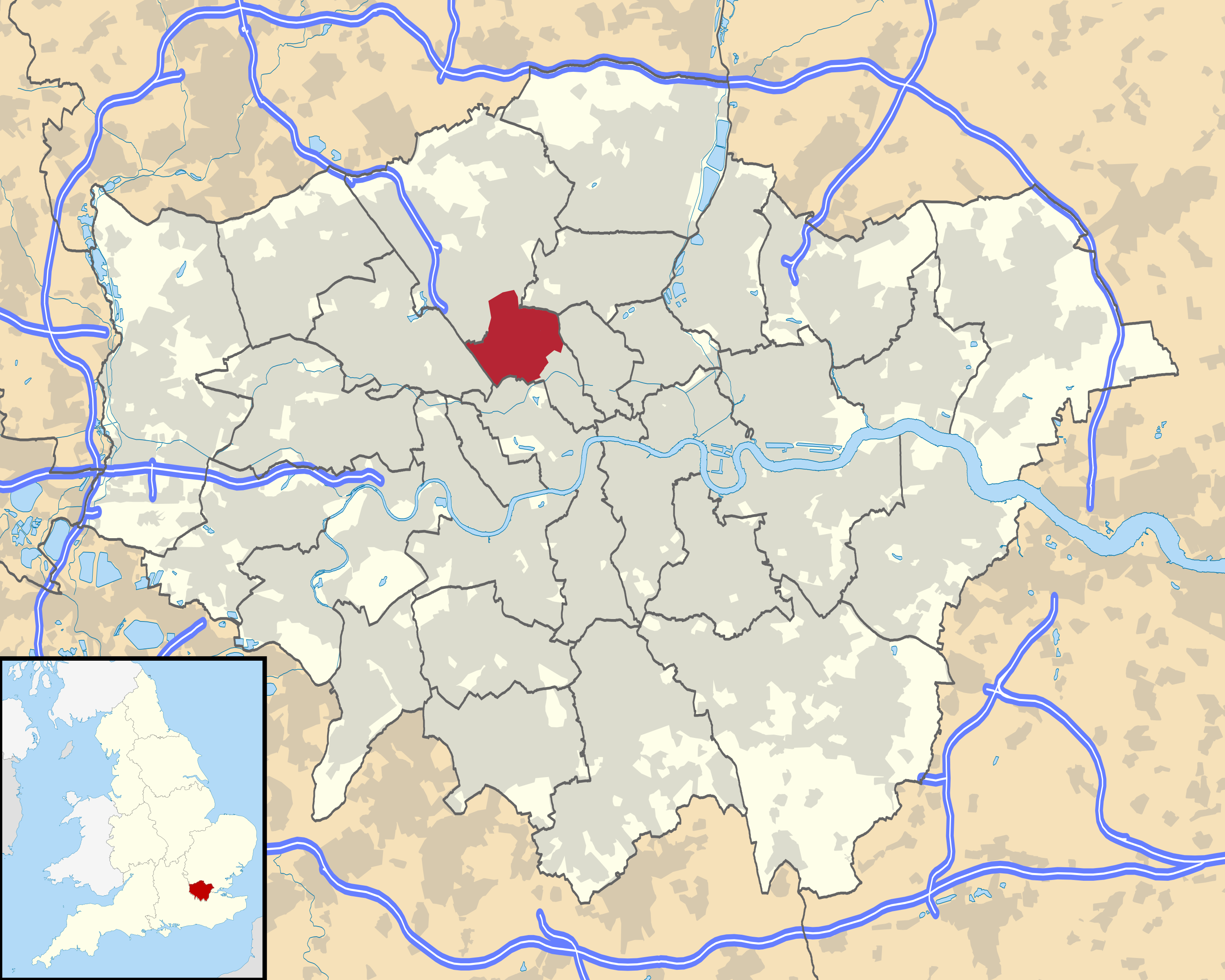 Location of the Hampstead area in London